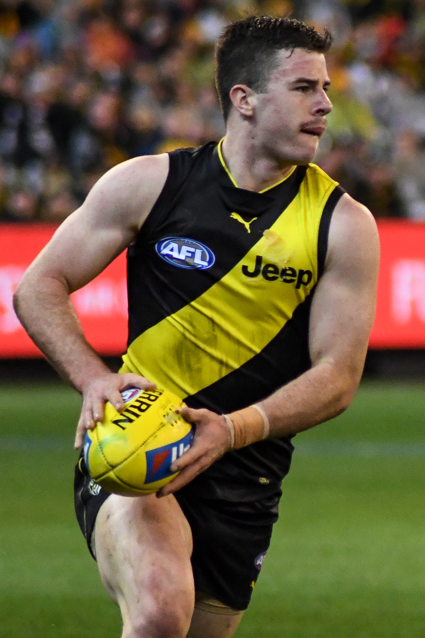 Jack Higgins of Richmond during the 2018 AFL round 20 match between Richmond and Geelong at the Melbourne Cricket Ground on Friday, 3 August 2018 in Melbourne, Victoria.